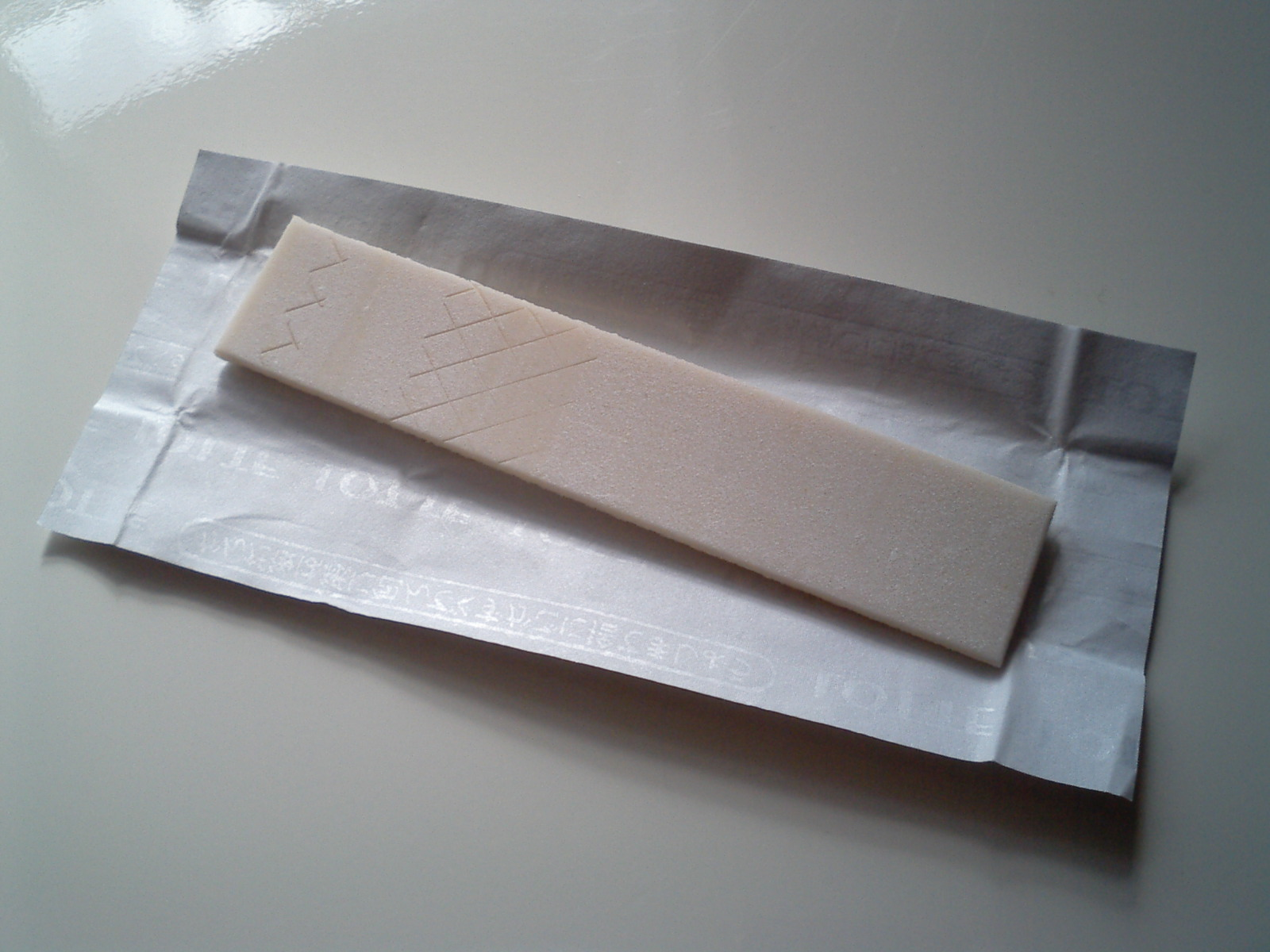 Stick type of Chewing gum that includes xylitol.